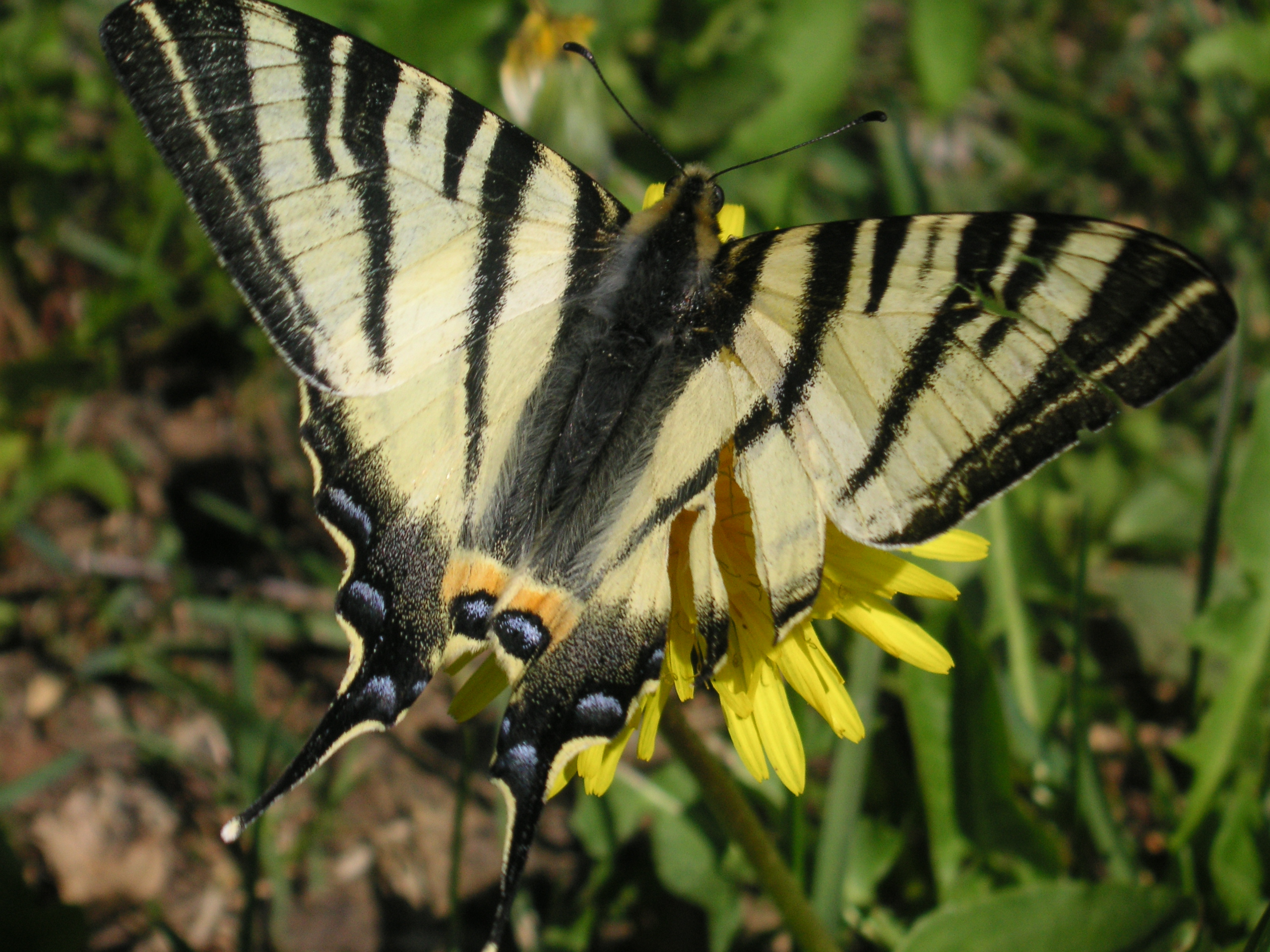 Iphiclides podalirius